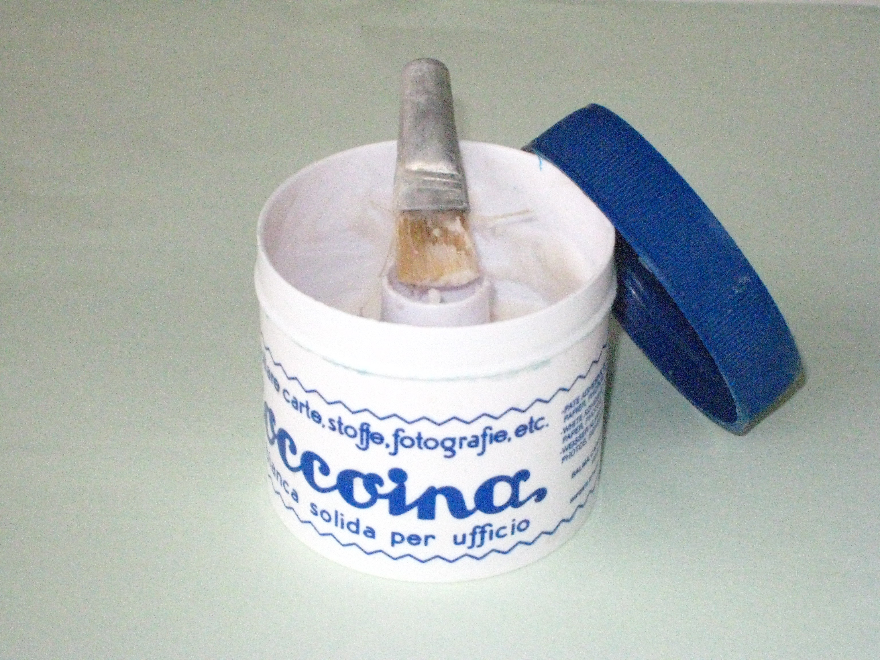 Coccoina